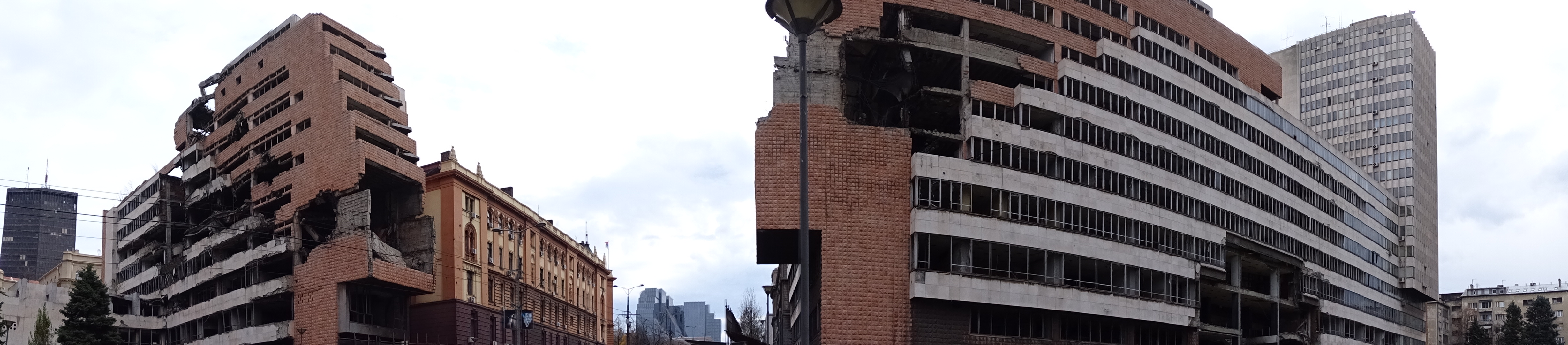 Panorama of Buildings Damaged in 1999 Kosovo War - Belgrade - Serbia